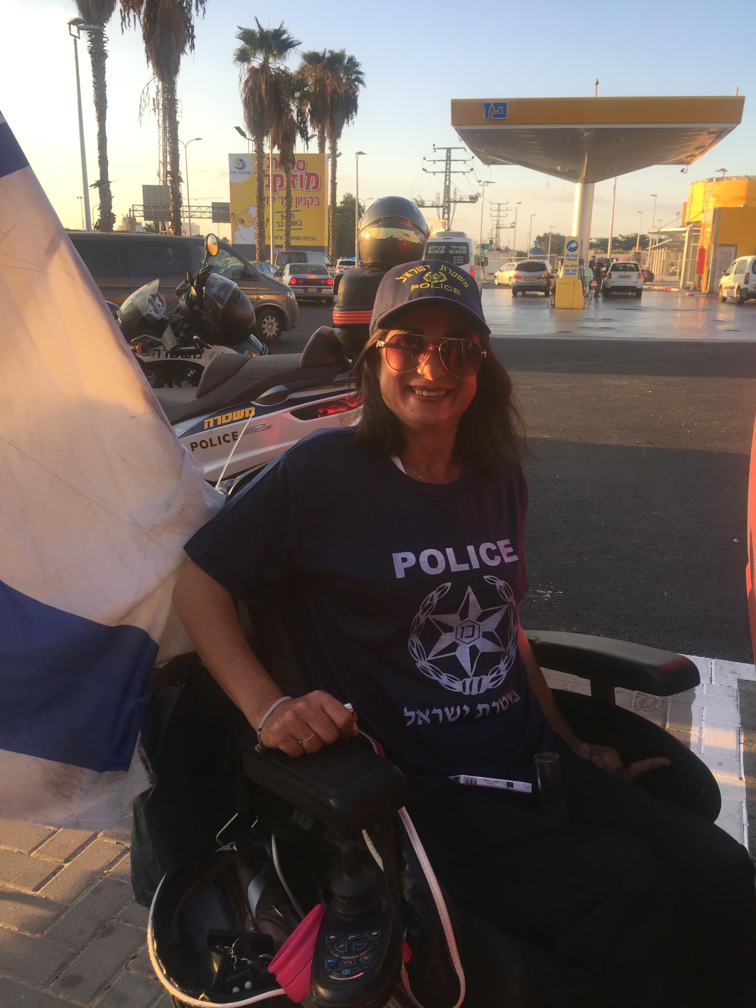 Hanna Akiva at a gas station, Netanya, Israel.